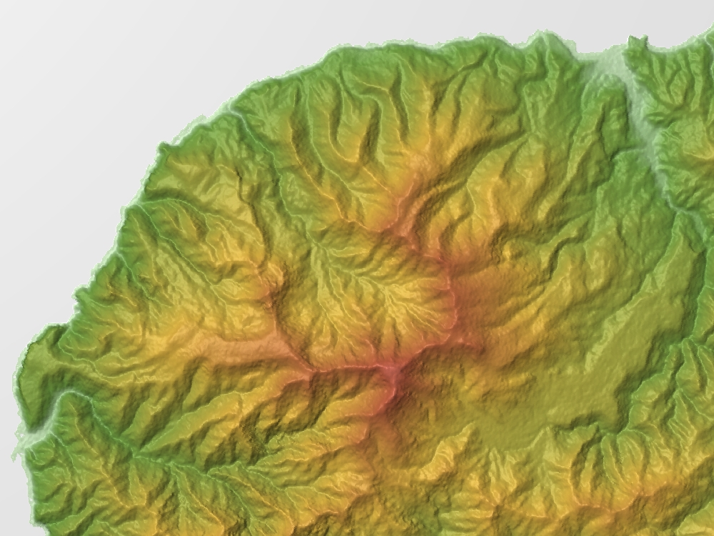 Mount Kariba (Kariba-yama) is a extinct volcano in Hokkaido, Japan.